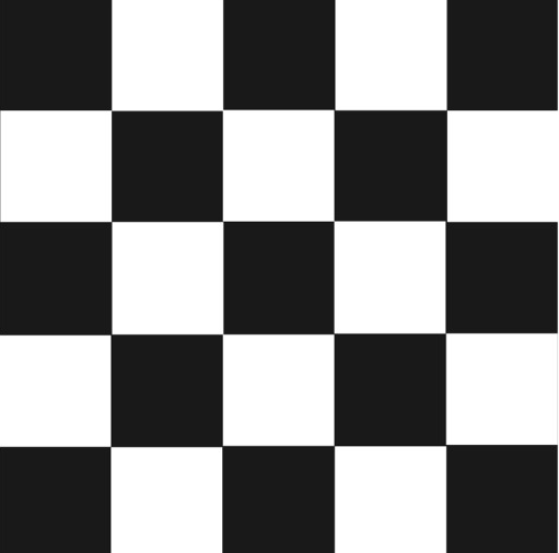 png conversion of raster output from original wikipedia picture Checkersmotoslogo.jpg